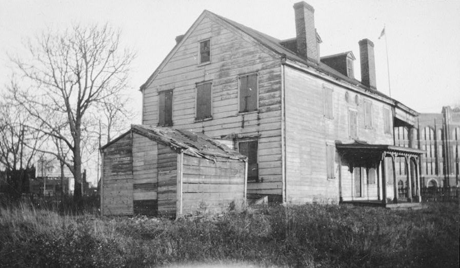 Hatfield House — Thirty-third Street & Girard Avenue, Philadelphia, Pennsylvania. VIEW OF HOUSE FROM NORTHEAST, ON ORIGINAL SITE, HUNTING PARK AVENUE. Significance: Fine example of a small 18th century residence remodeled and enlarged into a Greek Revival house. Constructed ca. 1760, enlarged and remodeled in 1838, moved into Fairmount Park in 1930. Photocopy of 1929 Historic American Buildings Survey of Pennsylvania photo taken by Erling H. Pedersen.